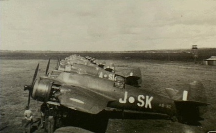 AWM Caption: Kingaroy, Qld. 1945. A row of Beaufighter aircraft of No. 93 Squadron RAAF on the airfield with aircraft J-SK A8-92 and A-SK in the foreground.